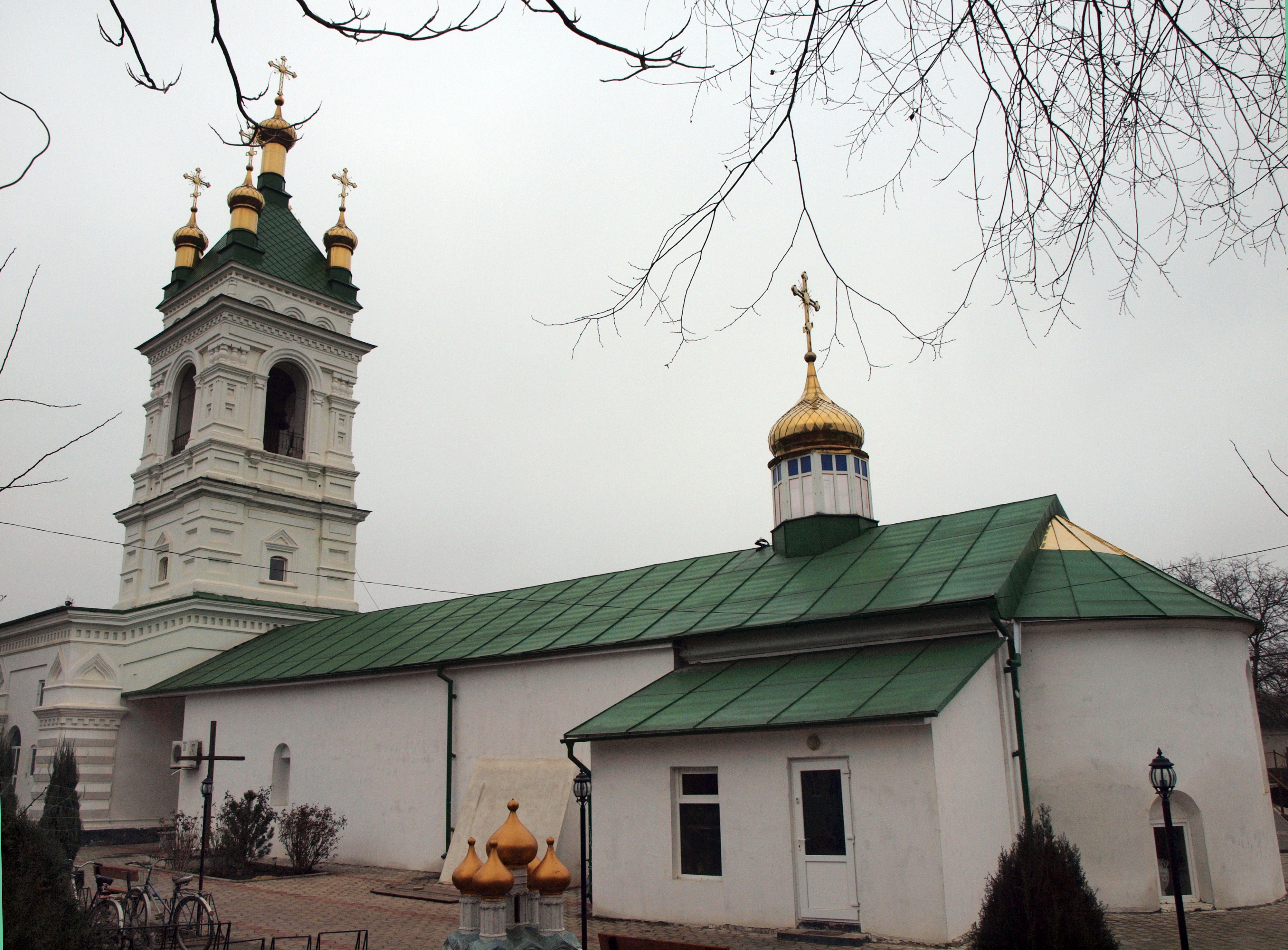 St. Nicholas Church in Kiliya, Ukraine